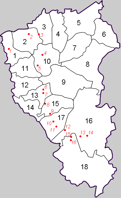 Administrative subdivisions of Kemerovo oblast